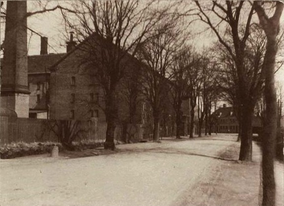 Aldersro Breweri at Jagtvej, Copenhagen. Est. 1860, closed 1900.